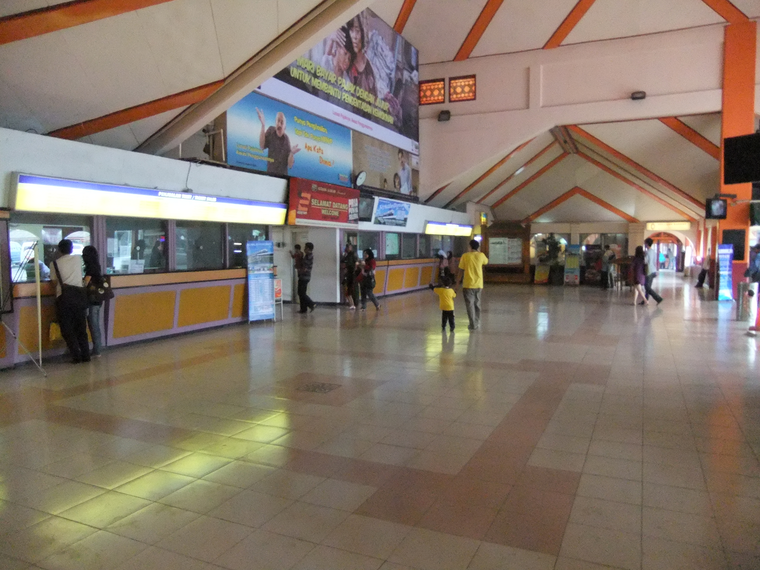 Ticket booth, Bandung Station, West Java